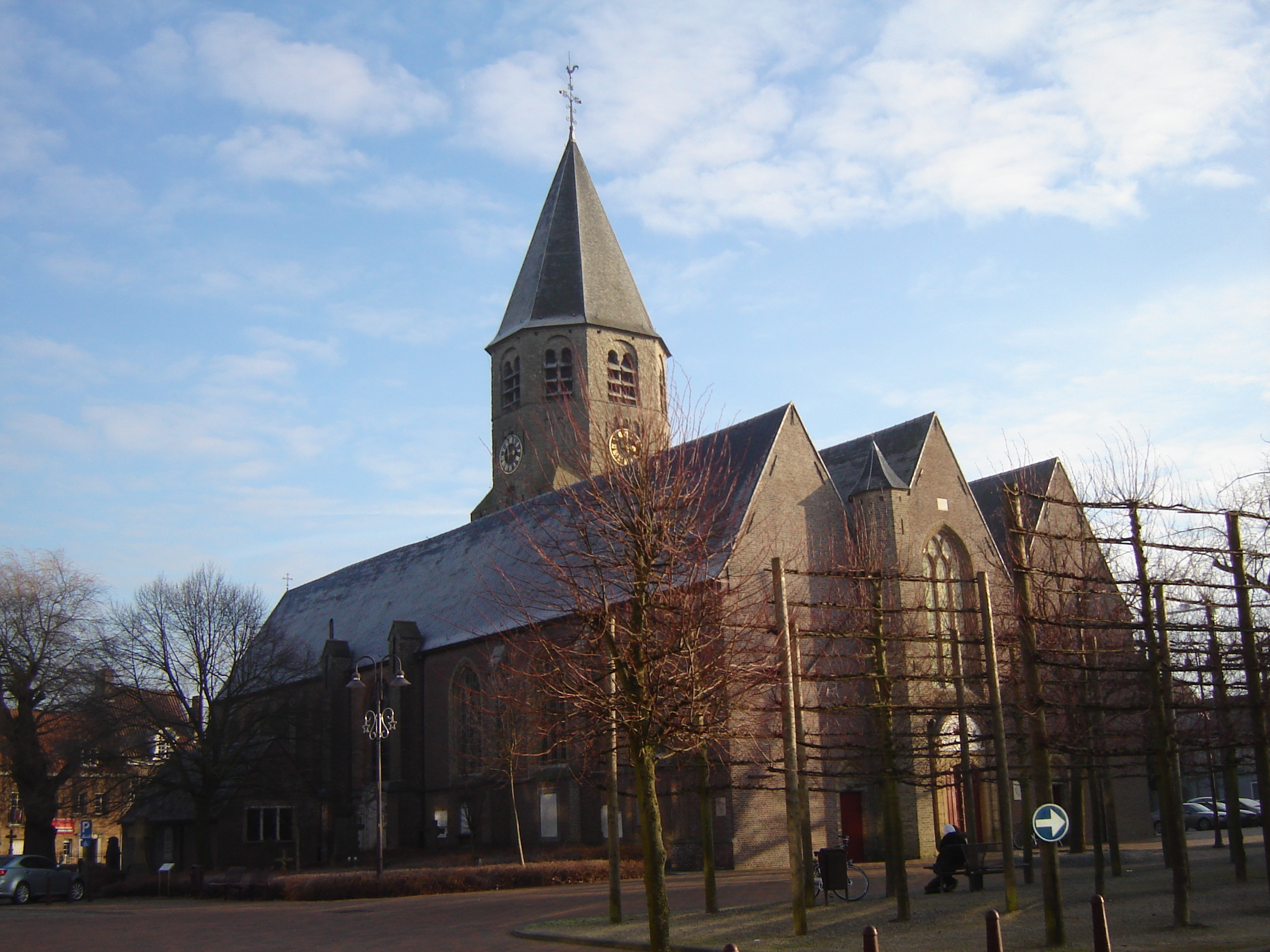 Church of Saint Peter in Oostkamp. Oostkamp, West Flanders, Belgium